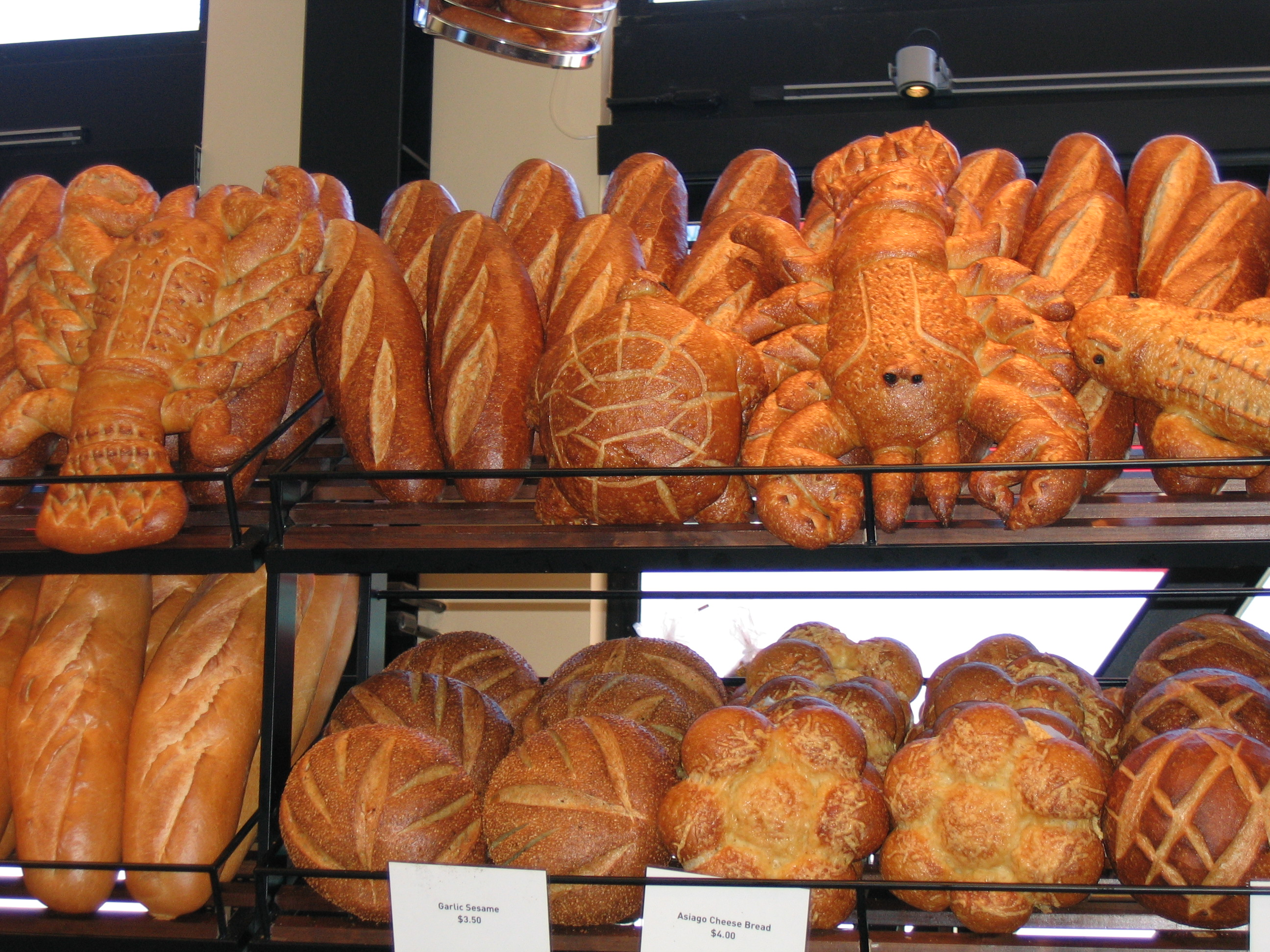 This is a photograph of some Boudin Bakery sourdough bread inside their Fisherman's wharf location. Don't you see the lobster and turtle shaped bread? Mmm... it looks tasty. Keen eyes will notice the protrusion up top, which is actually a metal basket of bread that is being shuttled across the bakery hanging from the ceiling.